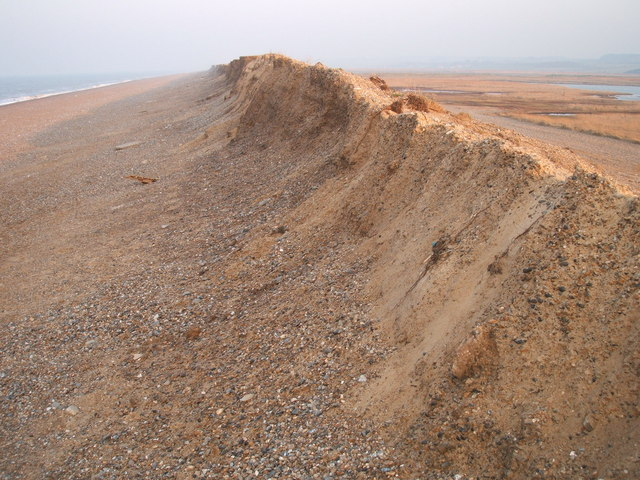 Cley Shingle Bank is fast eroding Big tides and a north wind caused lots of erosion to the Cley shingle bank in March 2007.